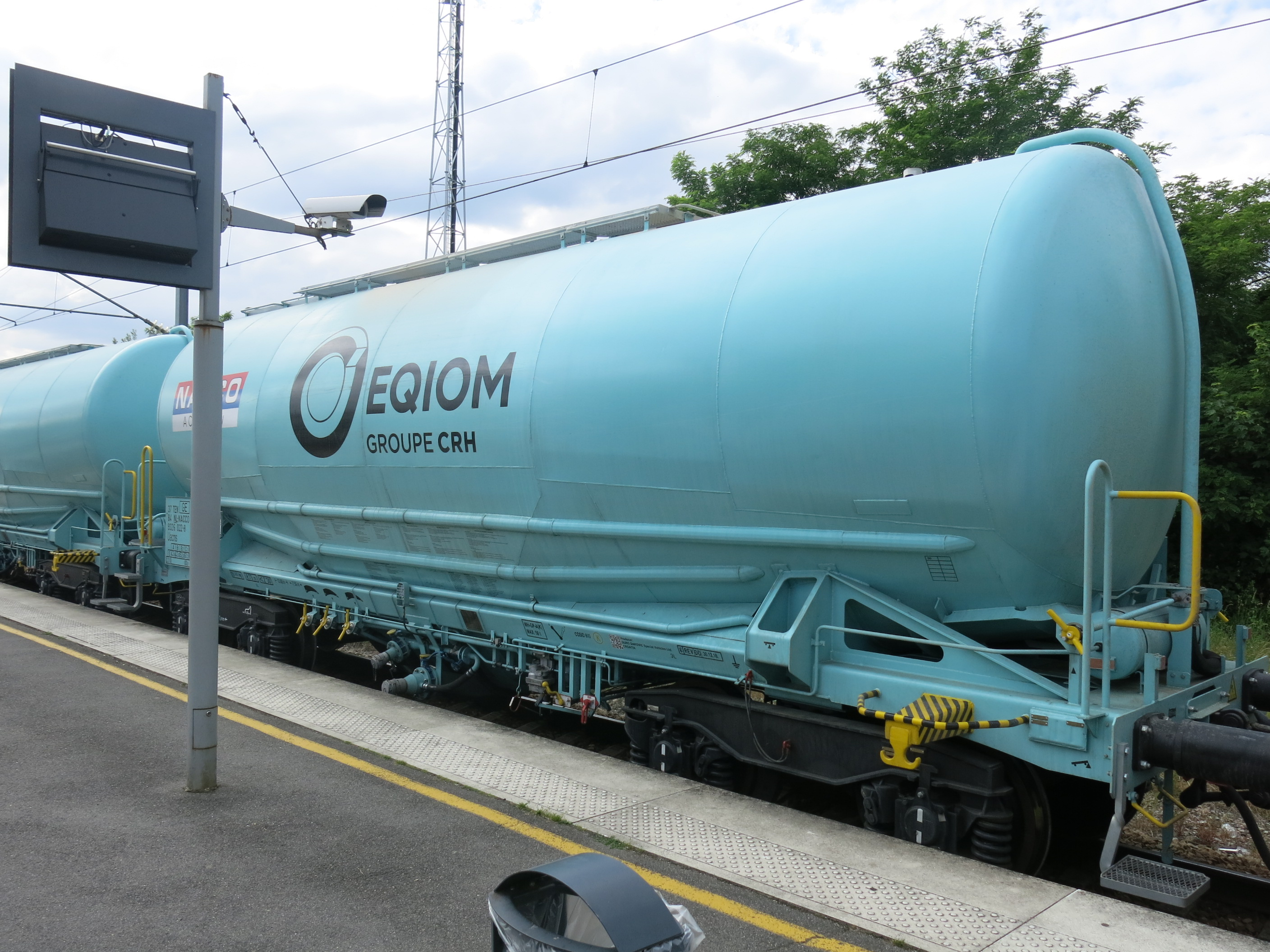 Cement transport wagon of the company EQIOM (formerly Holcim-France) of the irish group CRH in transit in the station of Vaires-Torcy (Seine-et-Marne, France). The wagon was designed and produced by a Duro Dakovic Group company (Duro Dakovic Special Vehicles), Croatia.